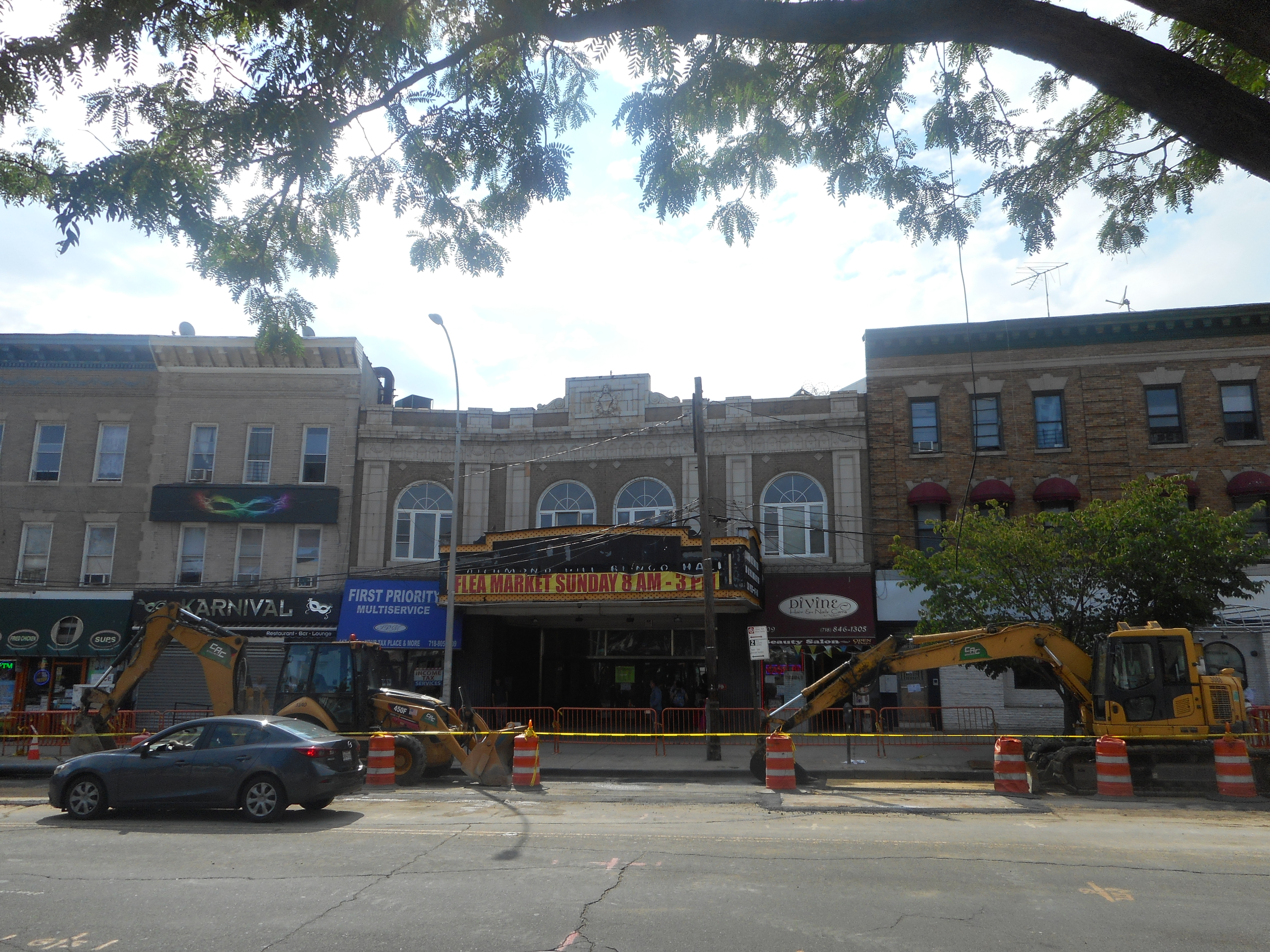 The former Richmond Hill RKO Theater on Hillside Avenue in the Richmond Hill section of Queens, New York City, now a Bingo Parlor.